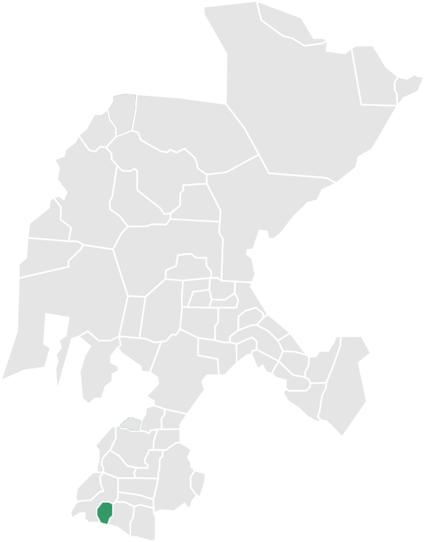 Map of the Municipality of Trinidad García de la Cadena in Zacatecas, México.